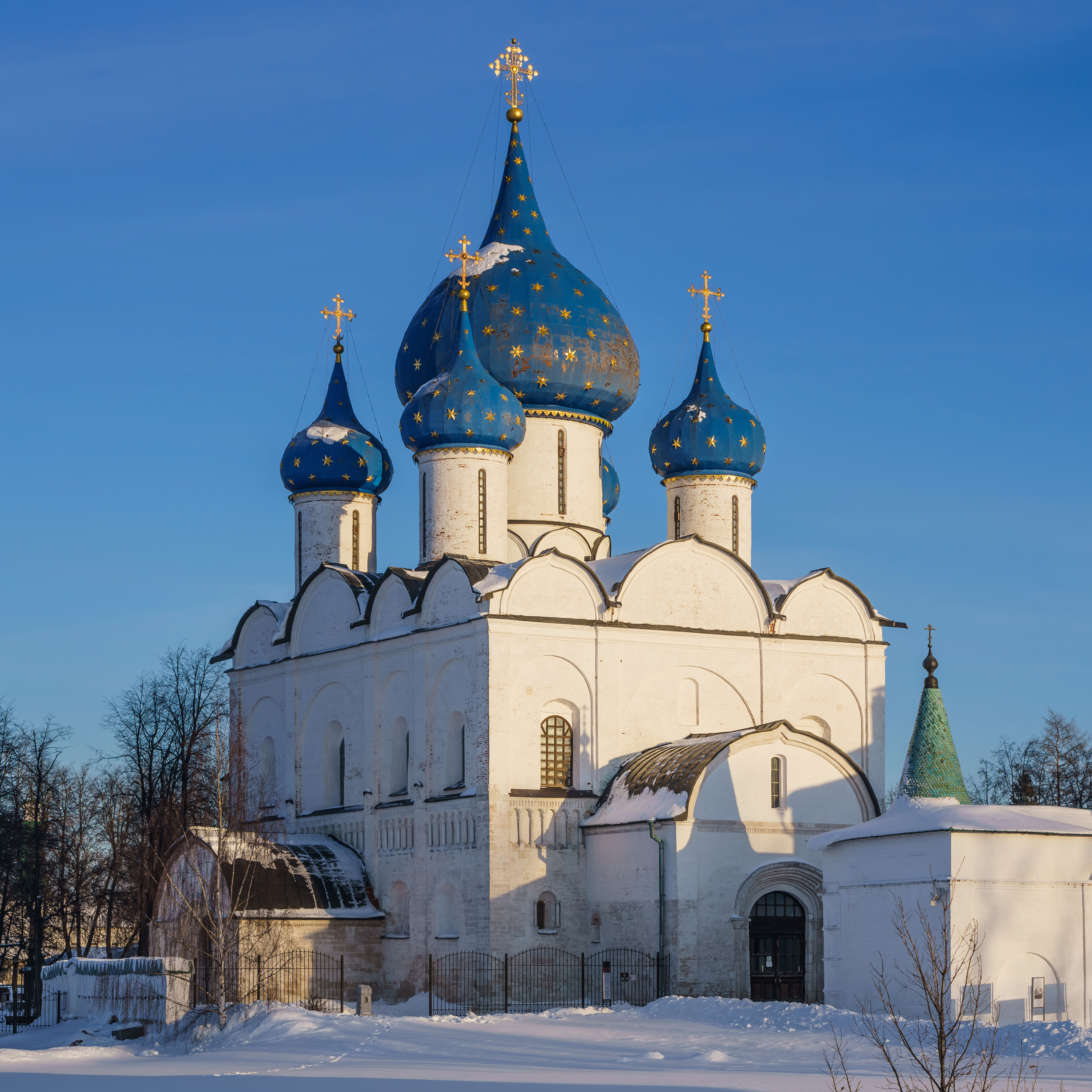 Church of St. Mary's Nativity in the Kremlin in Suzdal, Russia